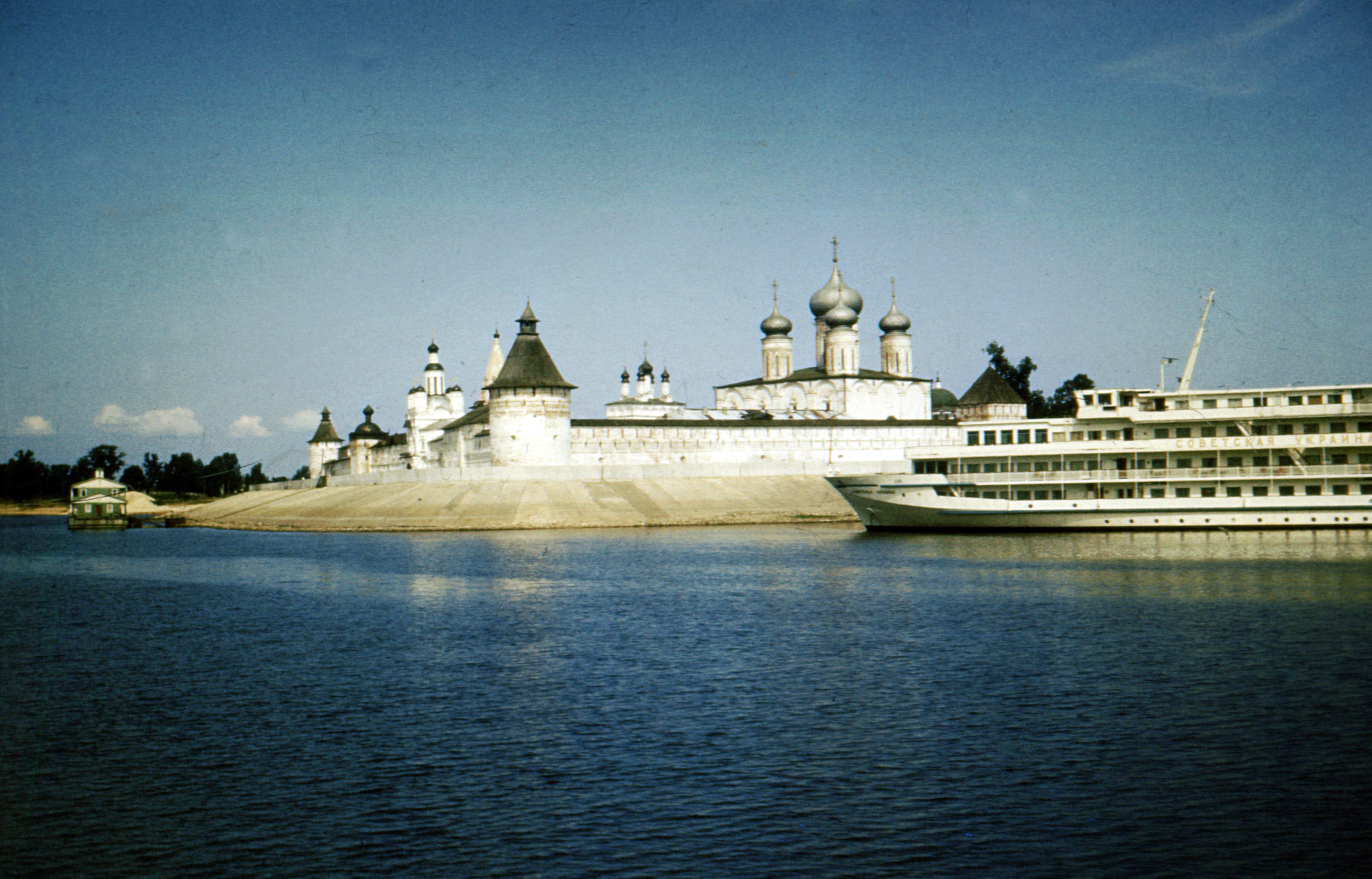 Makaryev Monastery